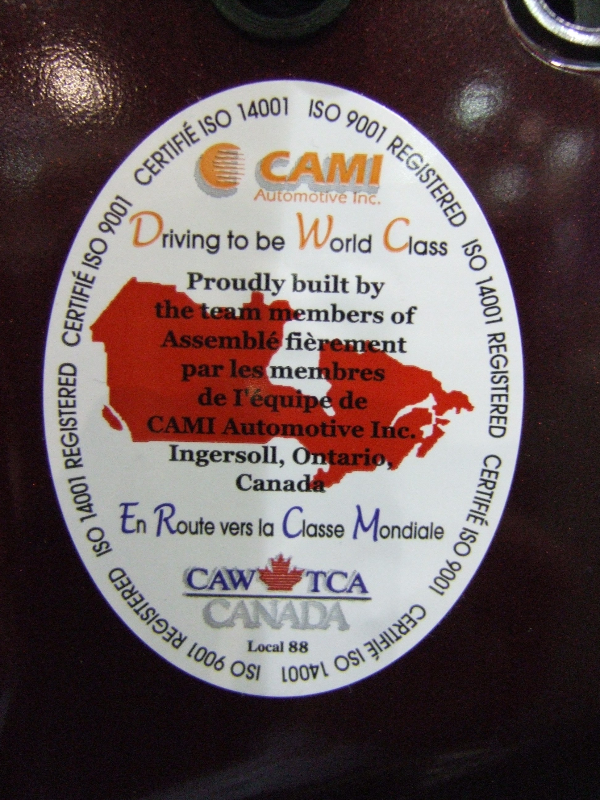 The certification sticker on a 2007 Chevrolet Equinox. Self made photo.